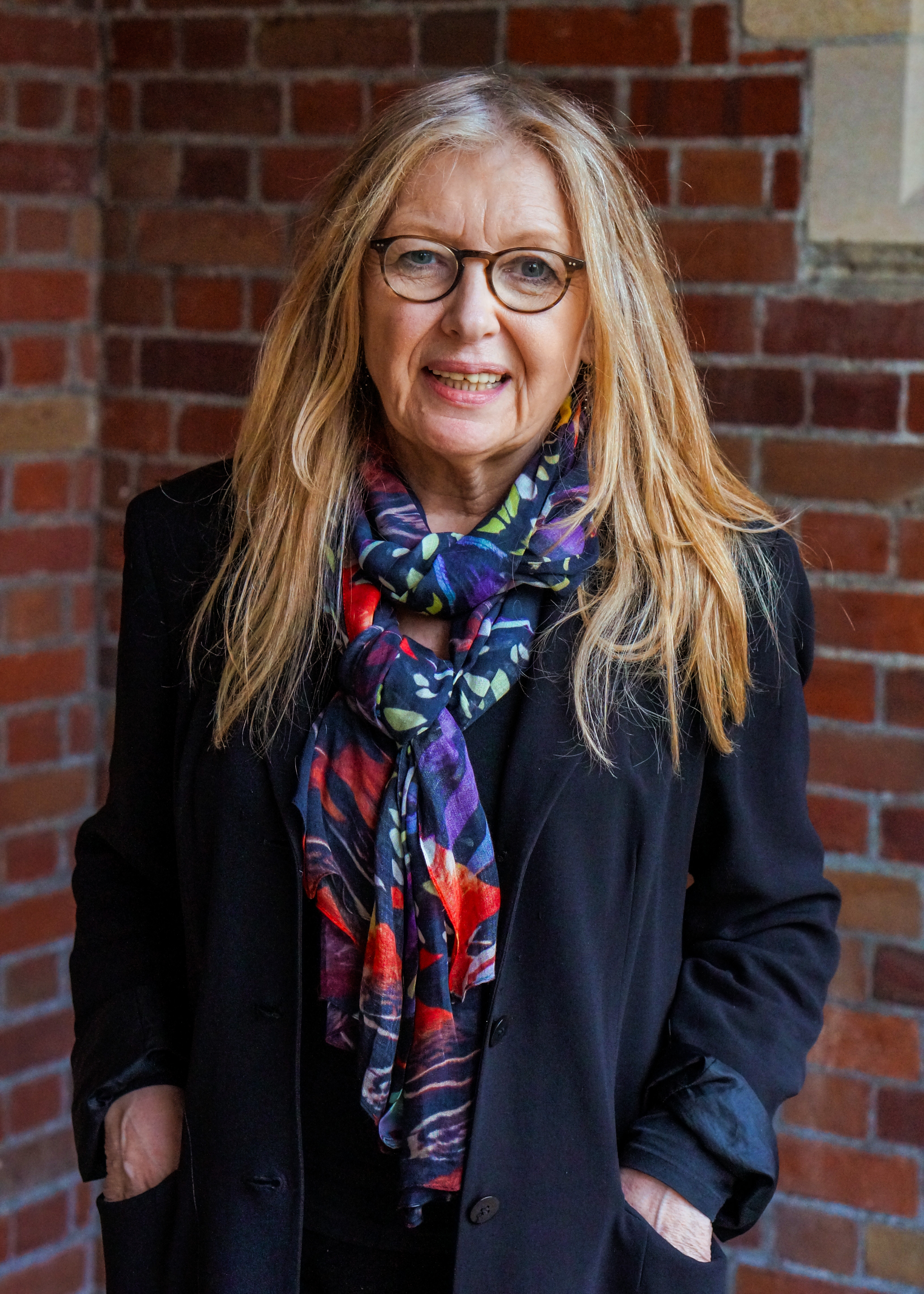 Playwrite